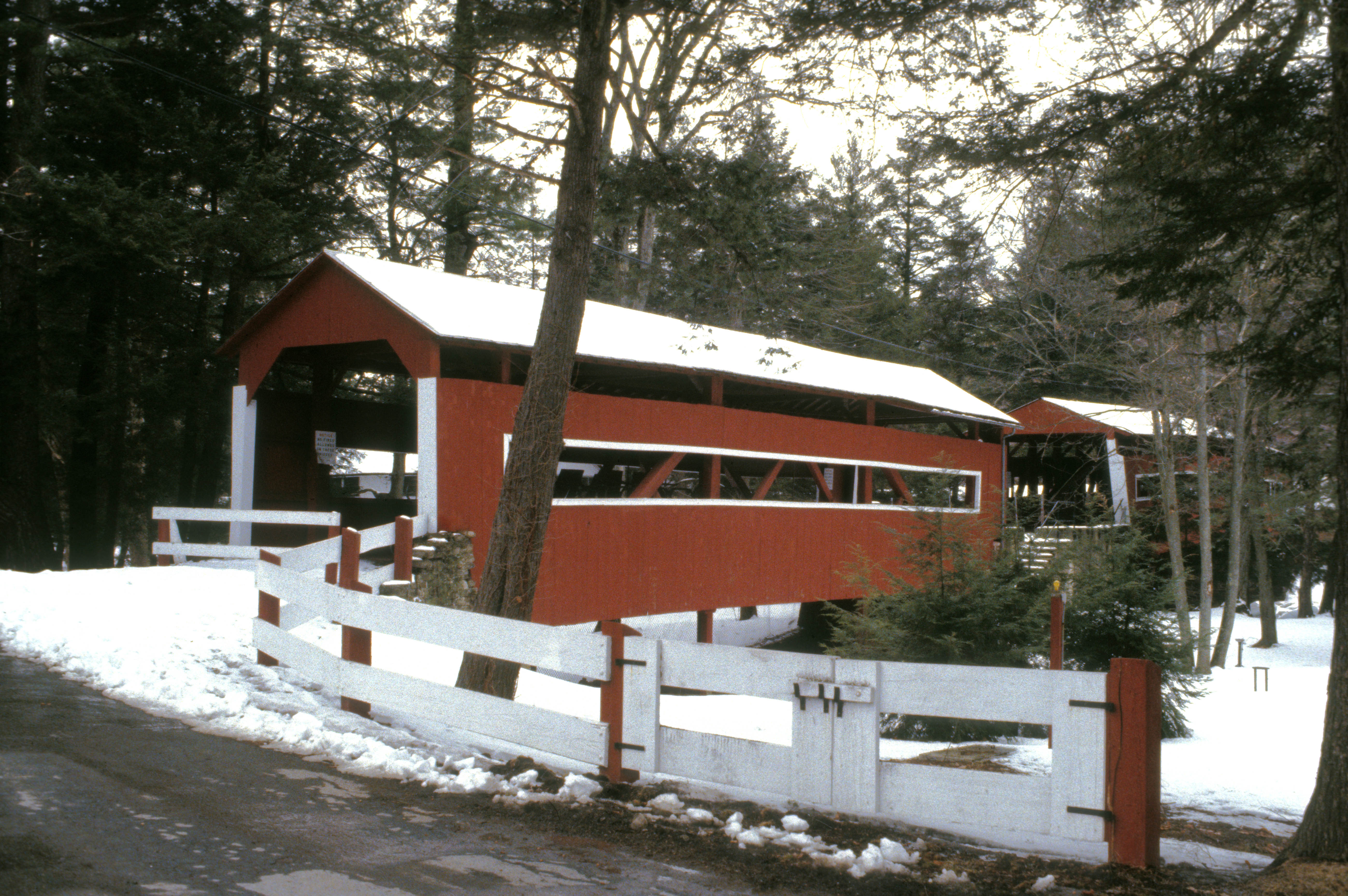 This is a photo of the East Paden Twin Covered Bridge (left, foreground) over Huntington Creek in Fishing Creek Township, Columbia County, Pennsylvania, USA. This photo shows the bridge in 1982, before it was damaged by a tree falling on it and a fire in 2004; it was later restored. The West Paden Twin Covered Bridge visible at right in the background, was destroyed in a flood in 2006 and then rebuilt in 2008 - for a brief history of both see here.